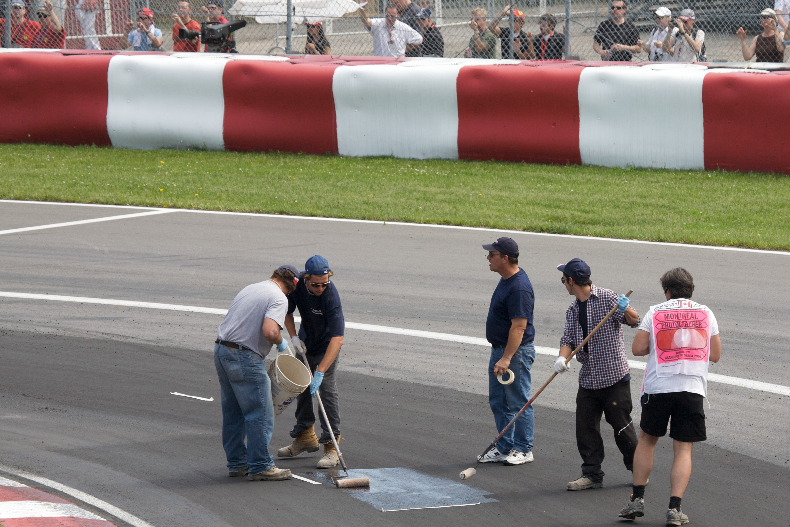 Track repairs being effected before the start of the 2008 Canadian Grand Prix.